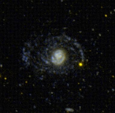 An ultraviolet image of NGC 4625 taken with GALEX. Credit: GALEX/NASA.